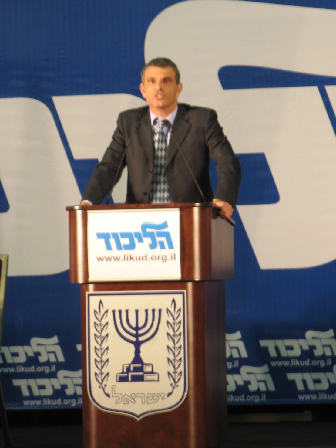 Moshe Kahlon speaking at Likud central Committee